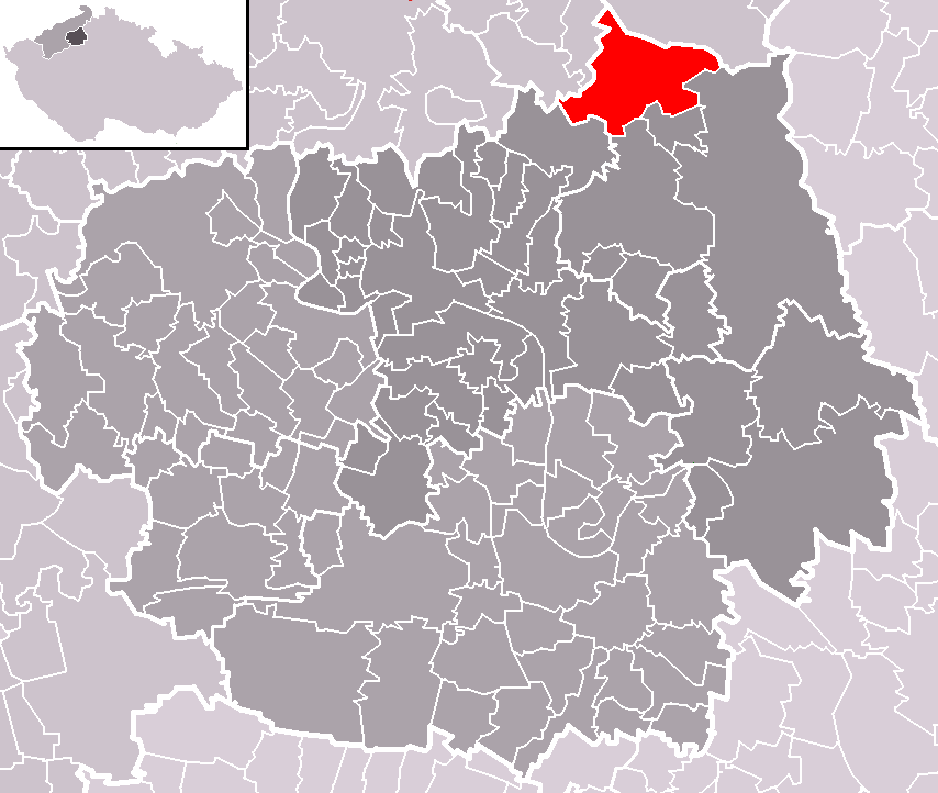 Location of Lovečkovice municipality within Litoměřice District and administrative area of Litoměřice as a Municipality with Extended Competence.